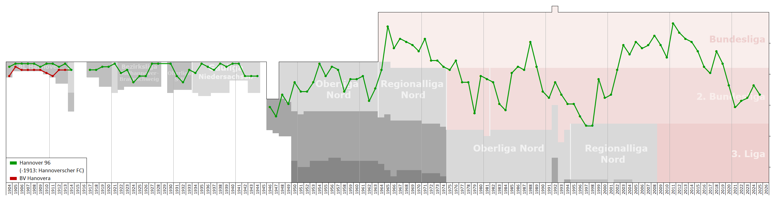 Chart of end-season table positions of Hannover 96 in the football league system of Germany. Data source: RSSSF, wikipedia, f-archiv.de, fussball.de